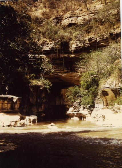 Ayiew Maco Cave Entrance of Sof Omar Caves, Ethopia